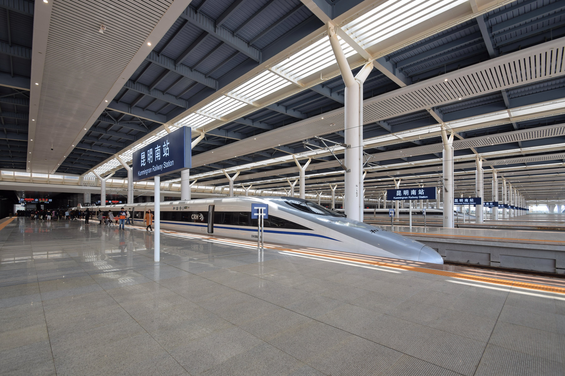 CRH380A-2868 EMU at Kunming Nan (South) Railway Station